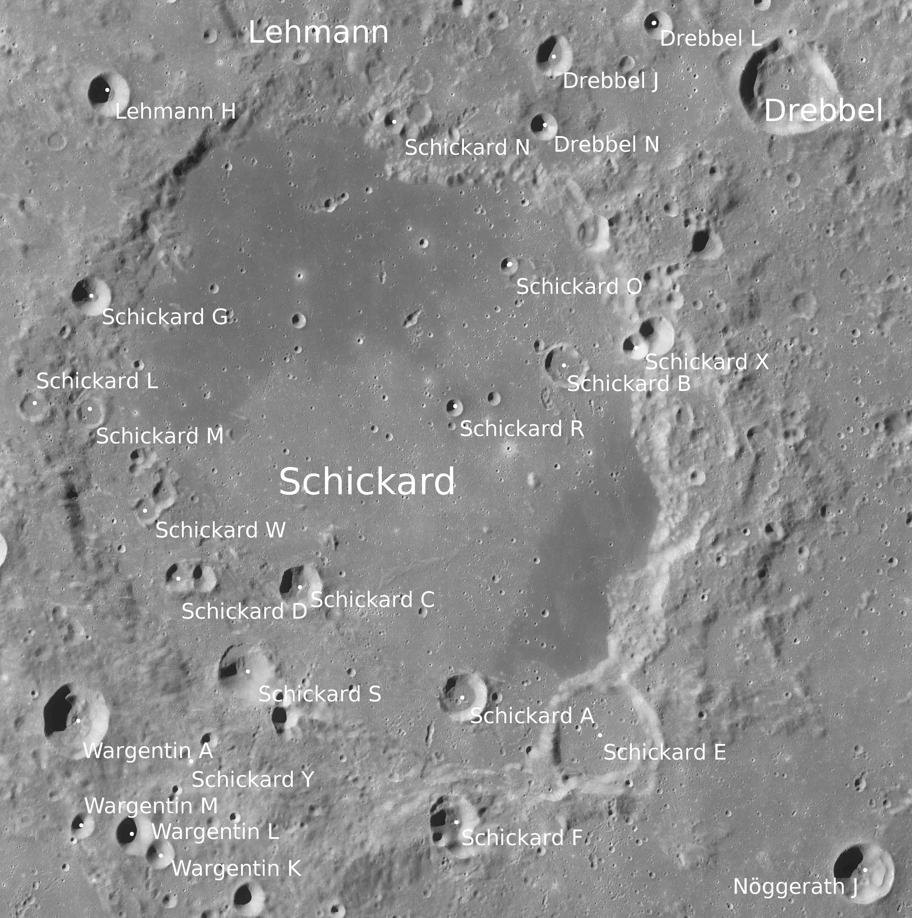 Crater Schickard (detail of LRO - WAC global moon mosaic)